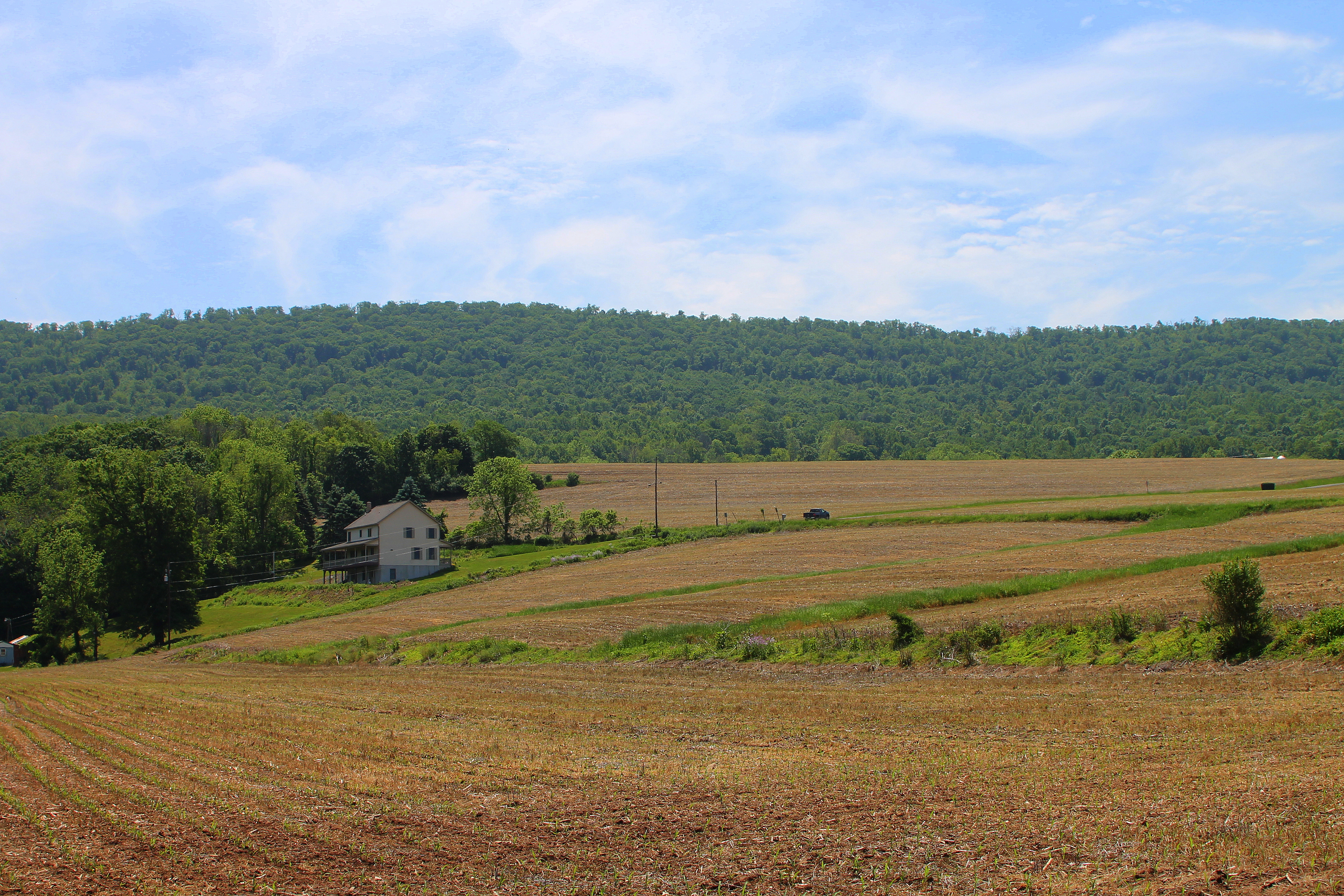 Some more fields and mountains in Upper Paxton Township, Dauphin County, Pennsylvania.